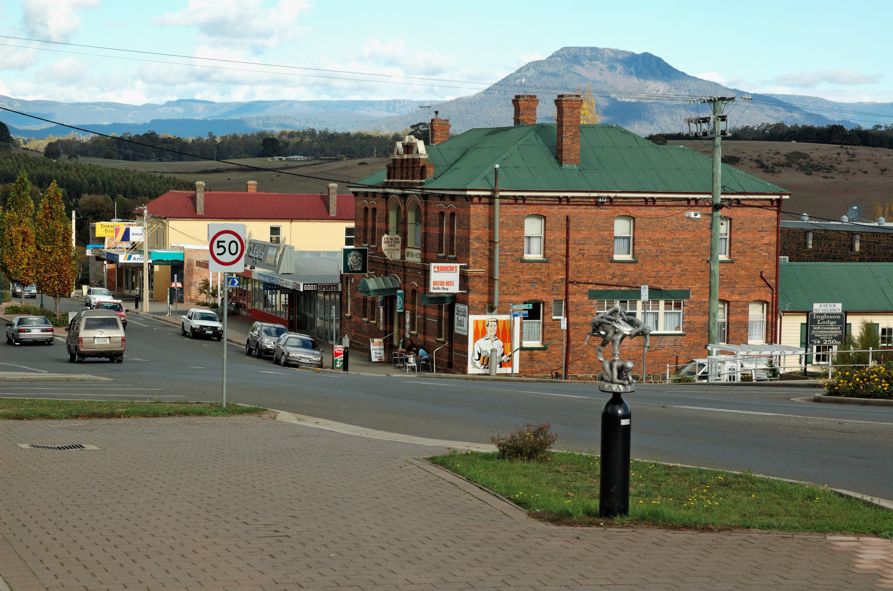 The British Hotel in Deloraine, Tasmania.